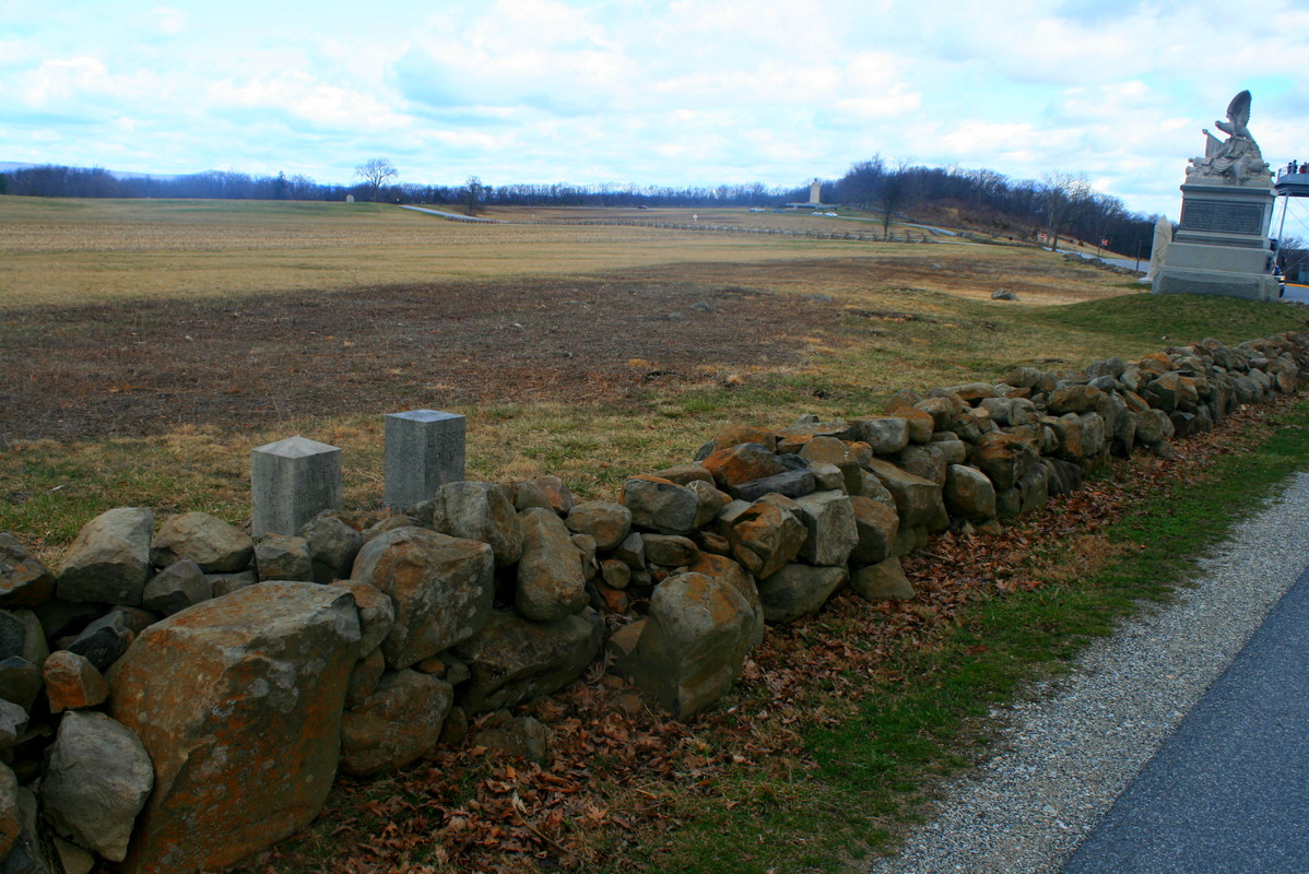 Gettysburg, Oak Ridge and position of Baxter's brigade